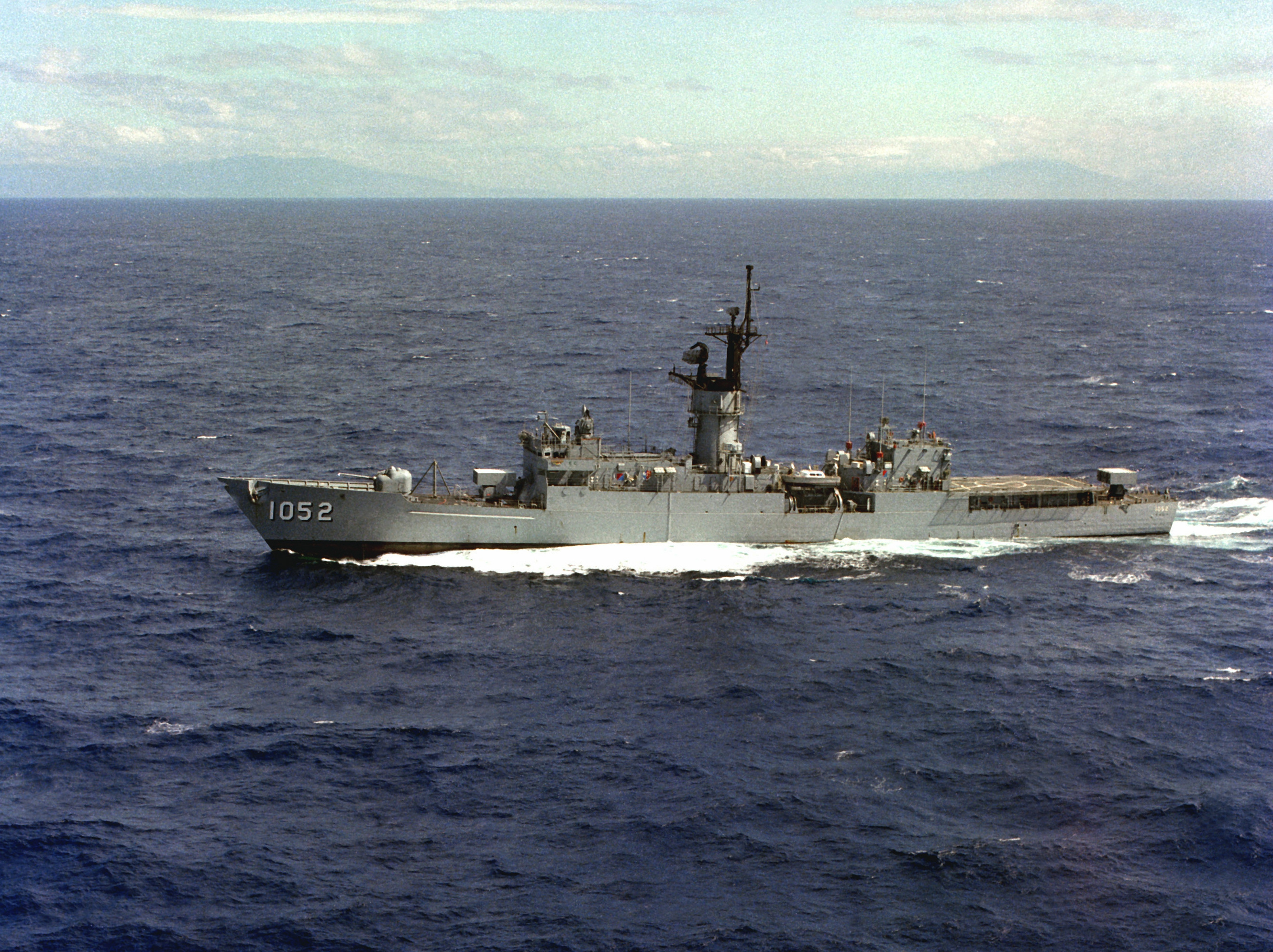 The U.S. Navy frigate USS Knox (FF-1052) underway off the coast of Luzon, Philippines, on 9 December 1981.